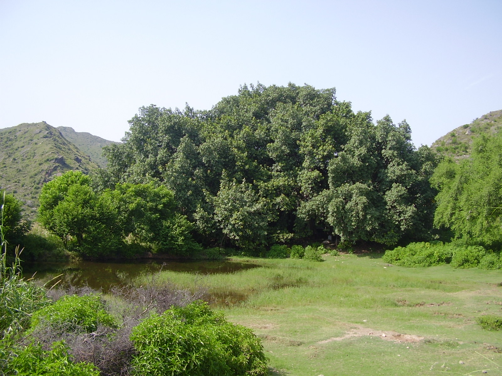 Centuries old Banyan tree spread on many acres inside Pharwala Fort